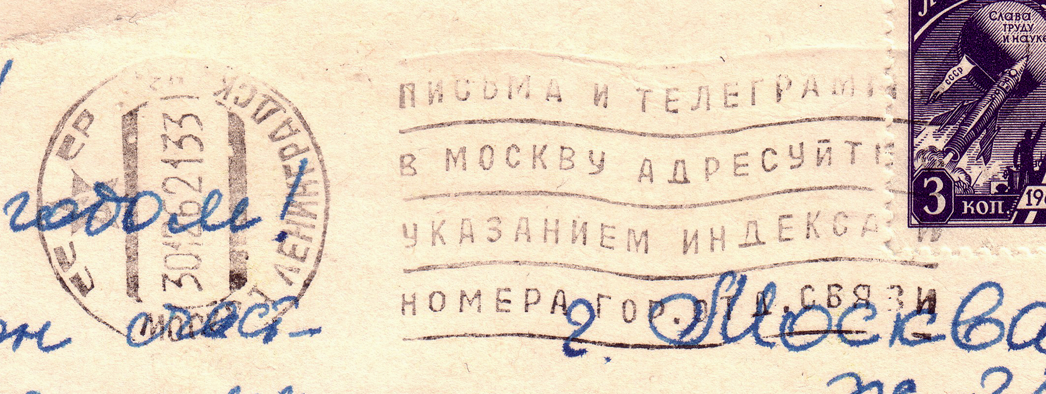 Fragment of the USSR greeting card with calendar and assistant postal markings advertising zip-code writing, 1962